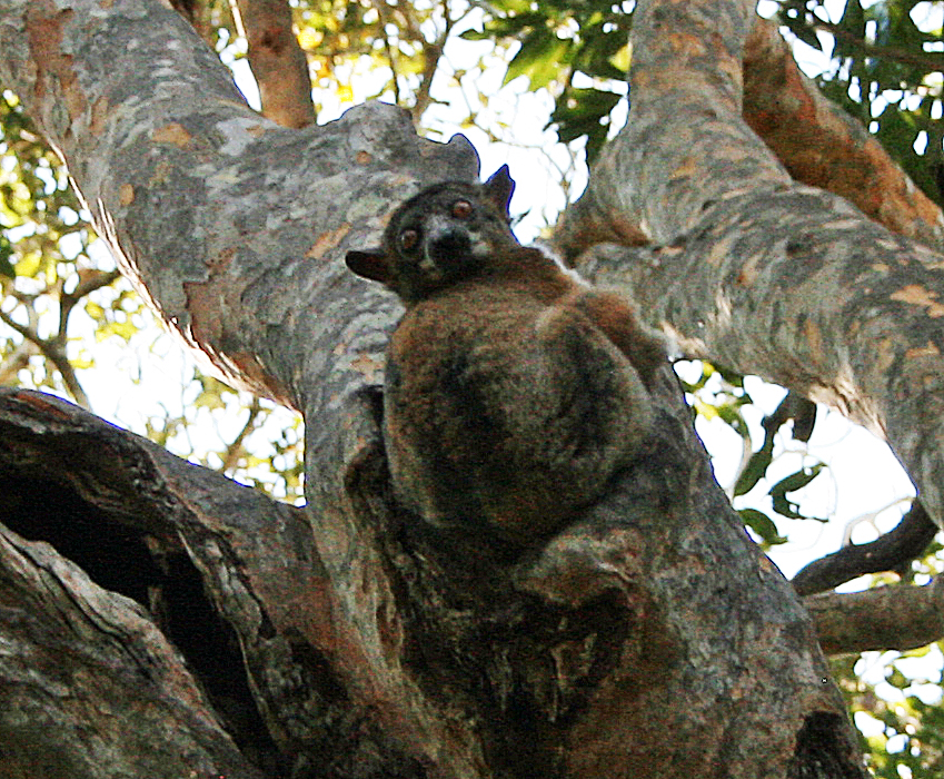 Red-tailed Sportive Lemur (Lepilemur ruficaudatus), Kirindy Private Reserve (Gavin Evans, May 2011)